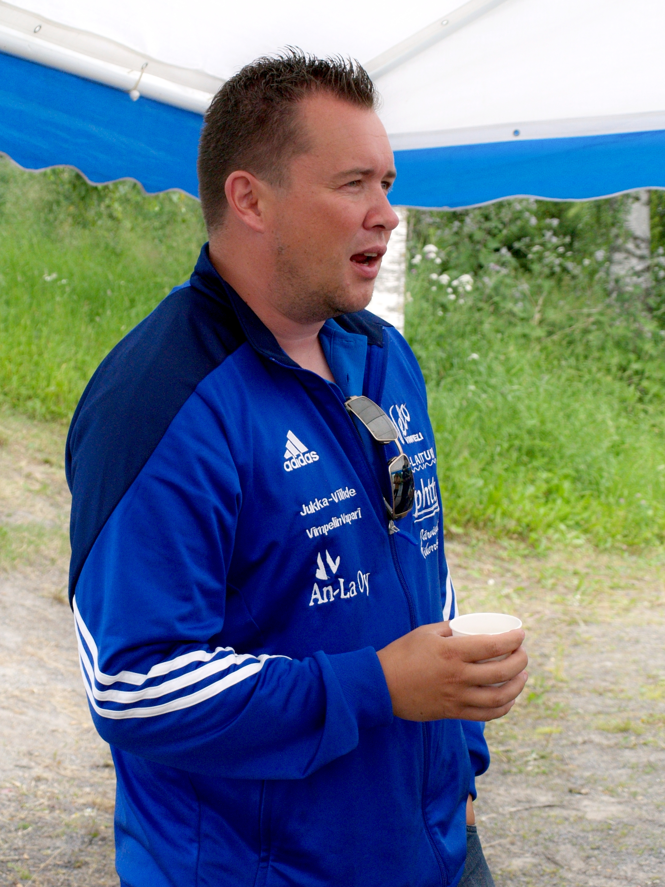 Pesäpallo coach Jussi Järvinen.